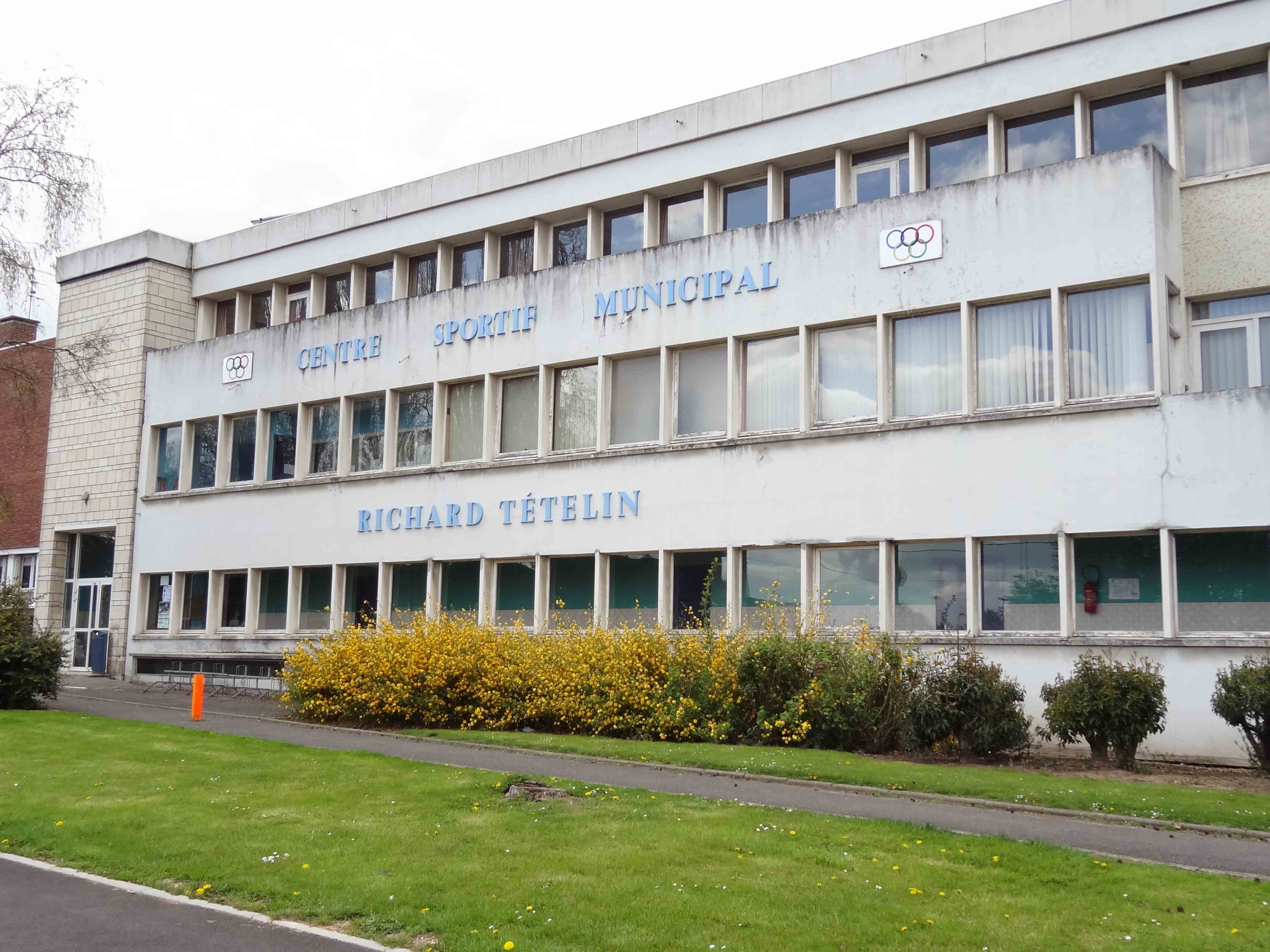 Halle des sports Richard Tetelin (Arras)